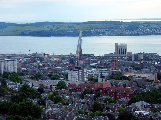 Midsummer night! Not dissimilar to another view already uploaded for this square - except this one is taken at 10.30pm! It is testimony to the long hours of daylight in summer in 'high latitudes'. The view extends as far as St Andrews bay and the coast of Fife in the distance.